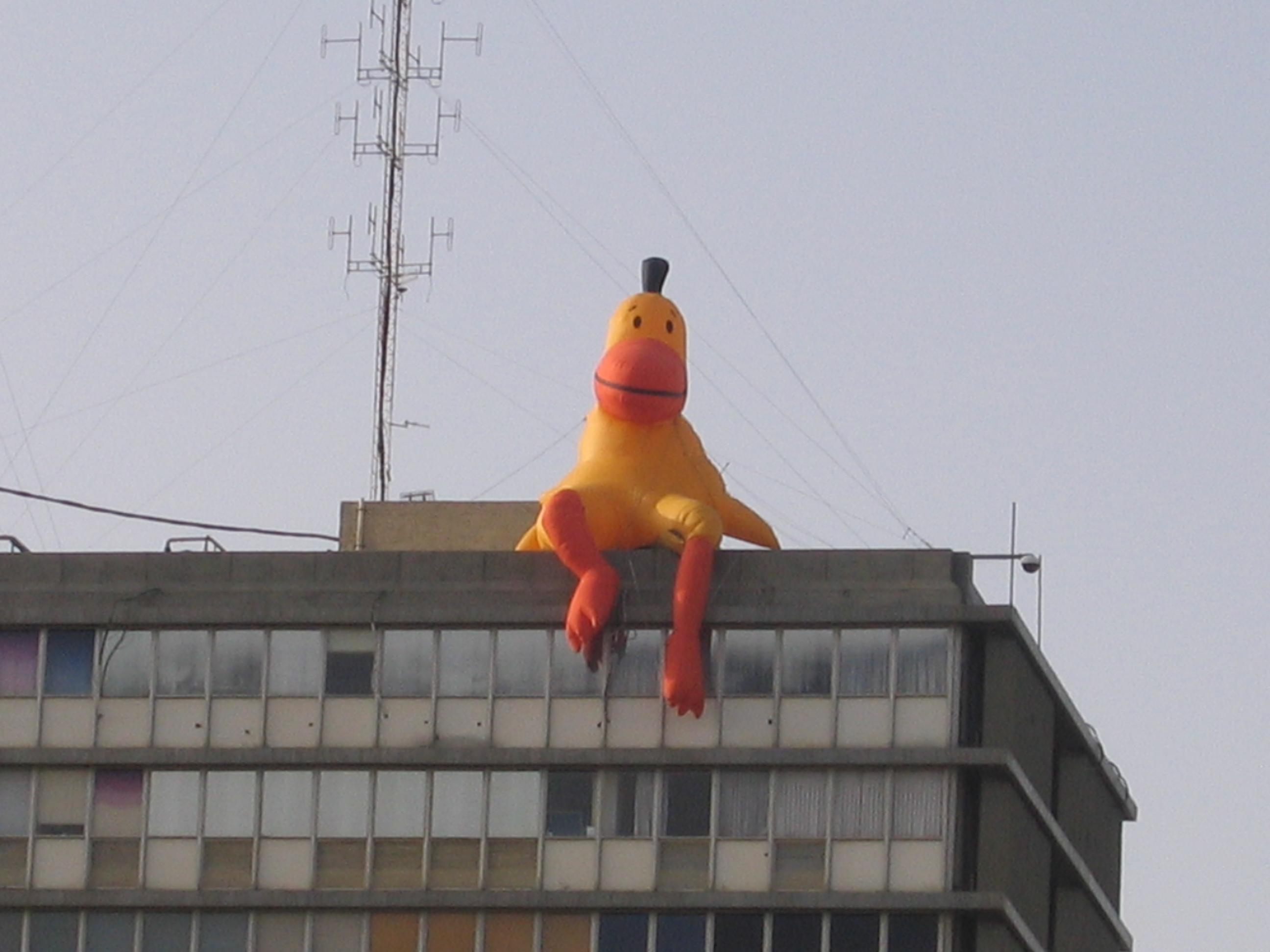 Dudu Gevaws Duck on the Tel Aviv-Yaffo City Hall